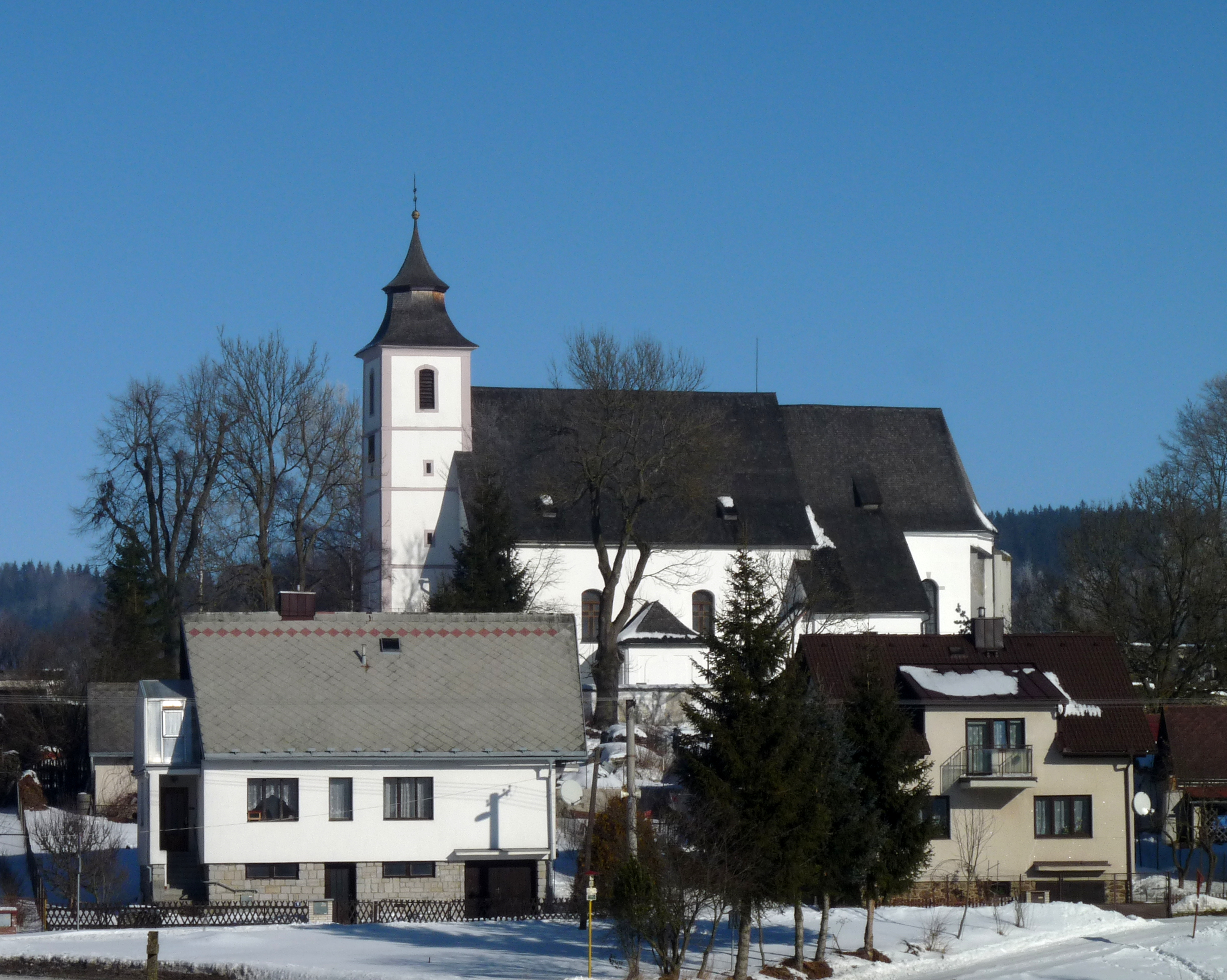 Church of Saint Vitus in the village of Zbytiny, Prachatice District, South Bohemian Region, Czech Republic.